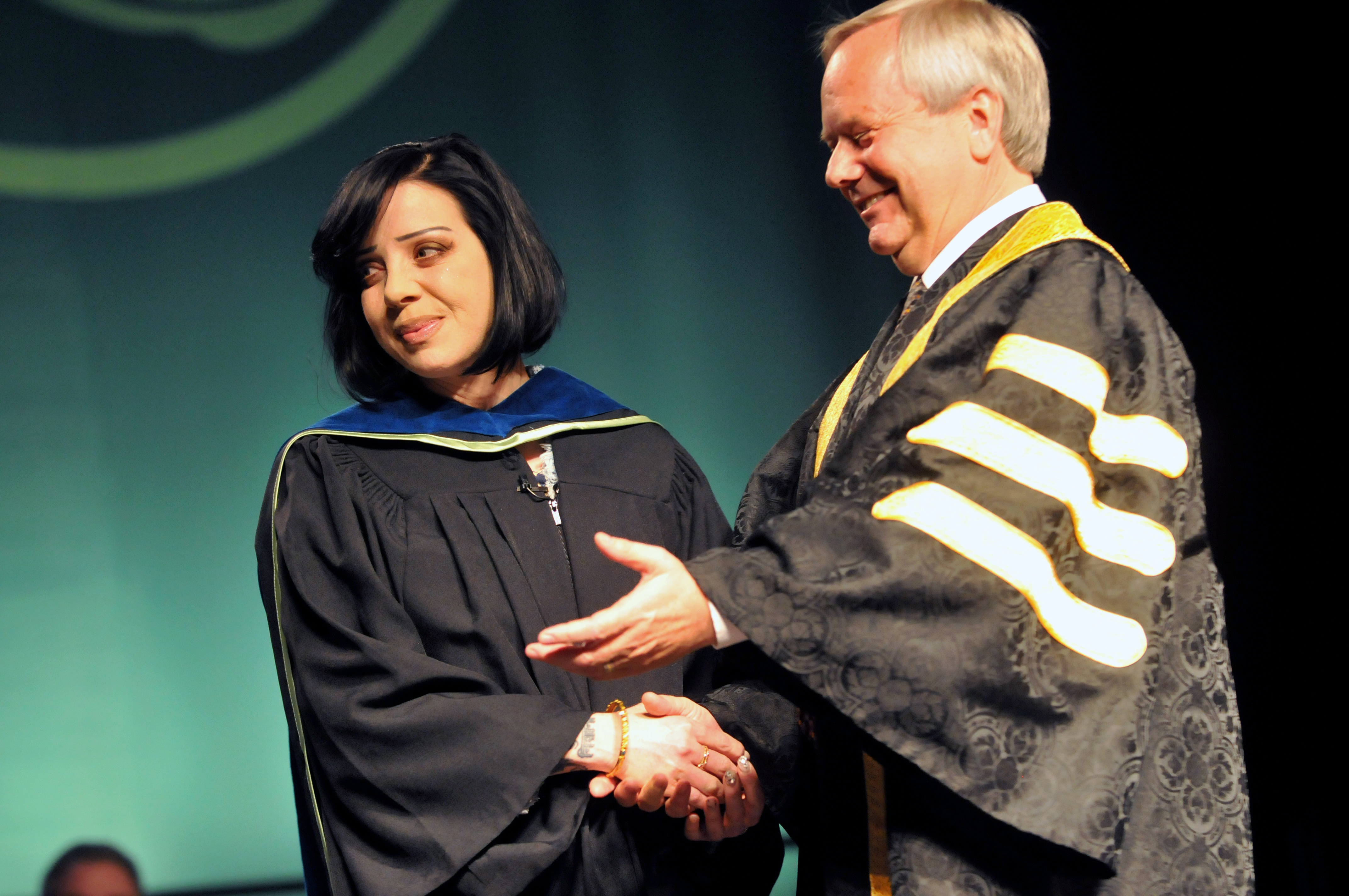 Bif Naked's UFV Convocation Photos UFV Convocation 2013 I